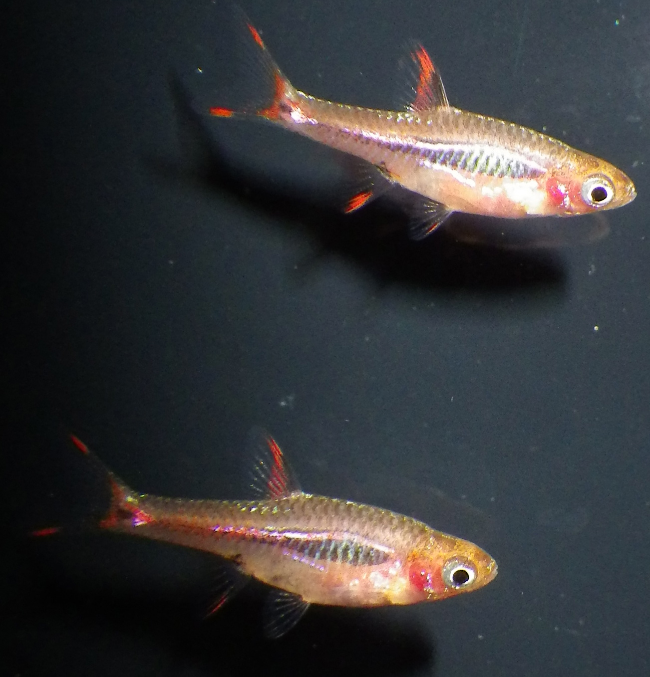 Boraras merah